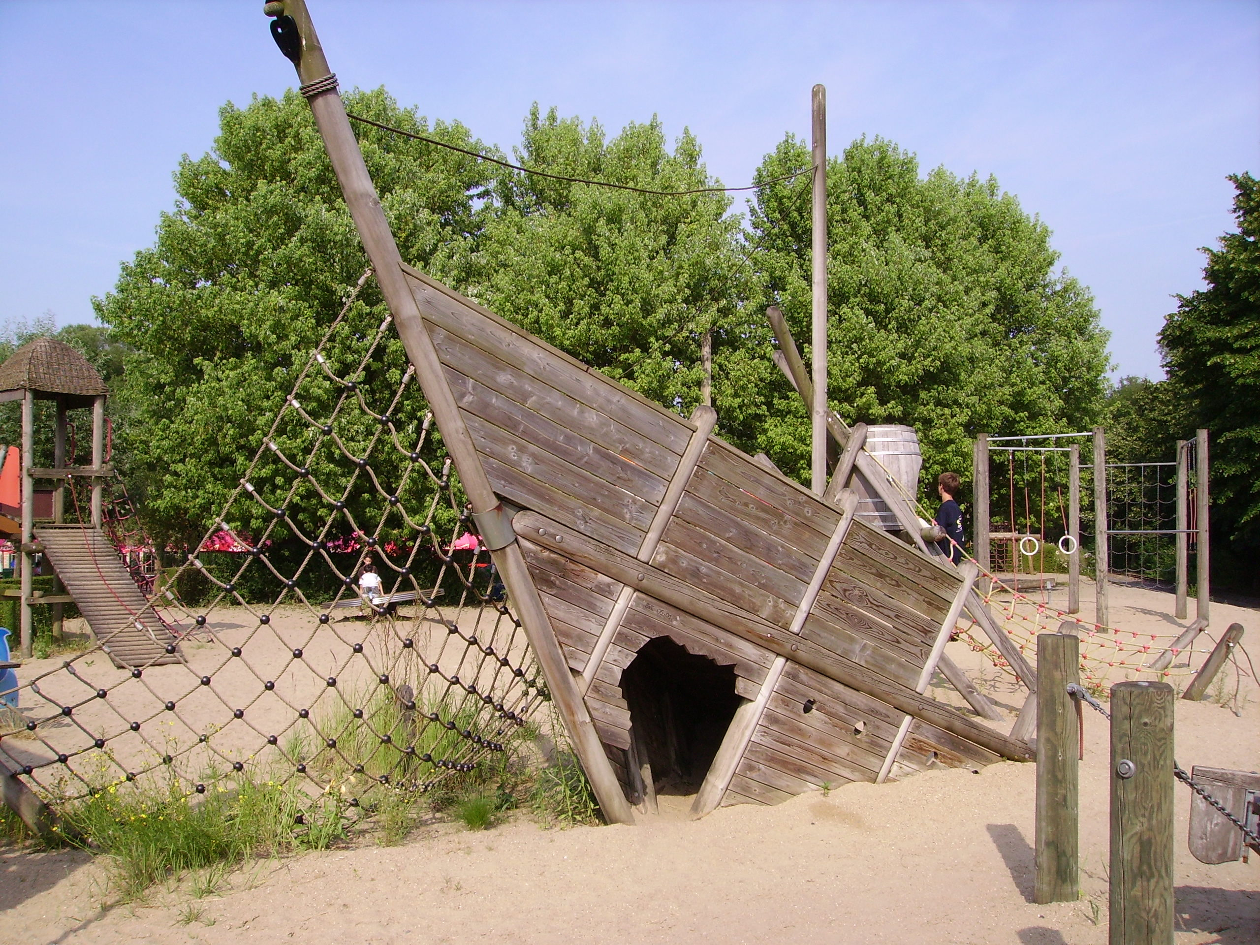 Boudewijnpark near Brugge, Belgium